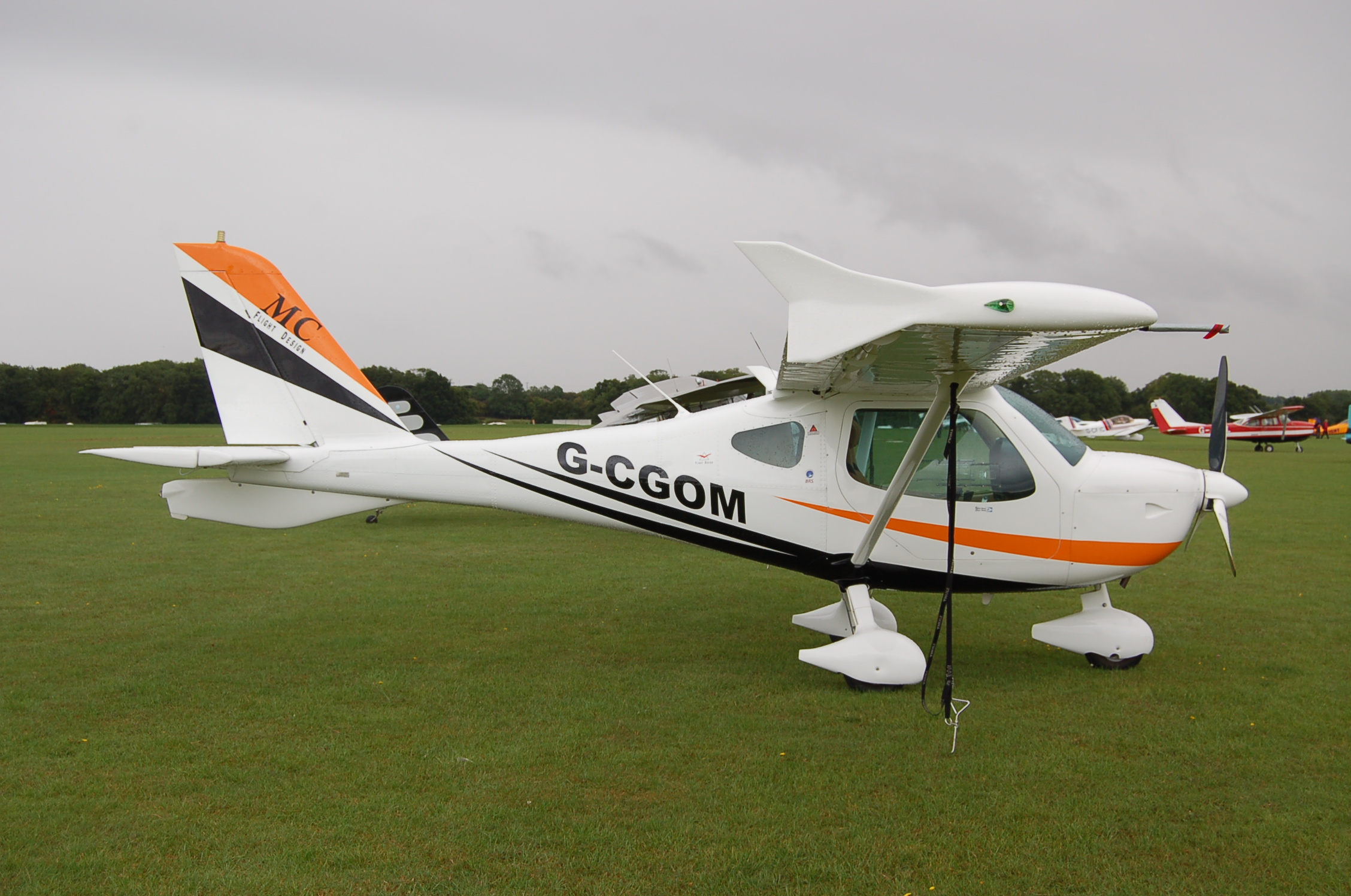 at the 2011 Light Aircraft Association Rally Sywell,N'hants.04/09/11.